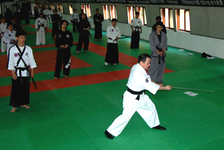 Hankumdo practice at the IHF headquarters. Featuring master Ko Ju Sik teaching hankumdo to Korean masters. Mestre Ko JU sik em instrução de hankumdo